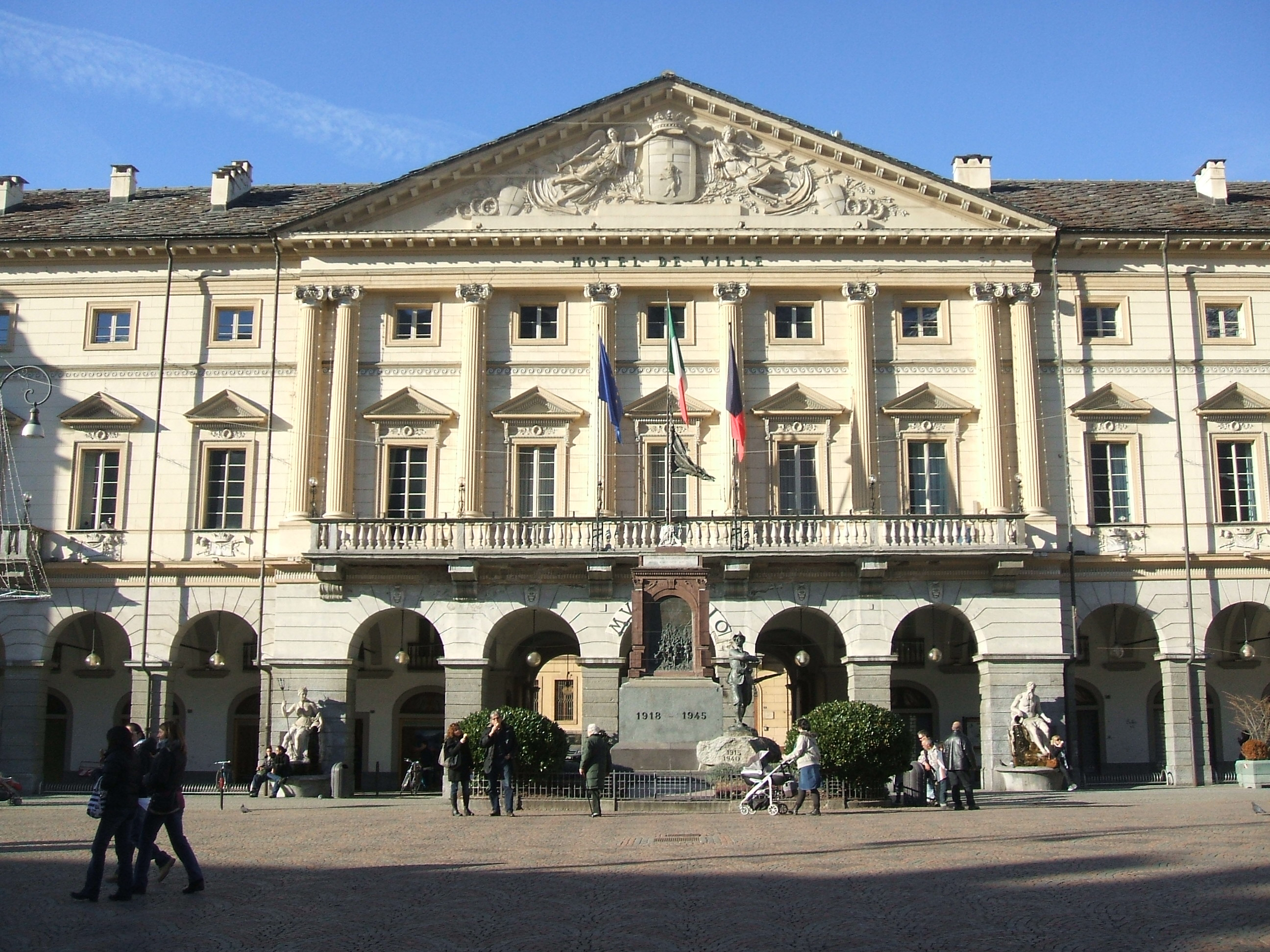 town hall, Aosta Italy